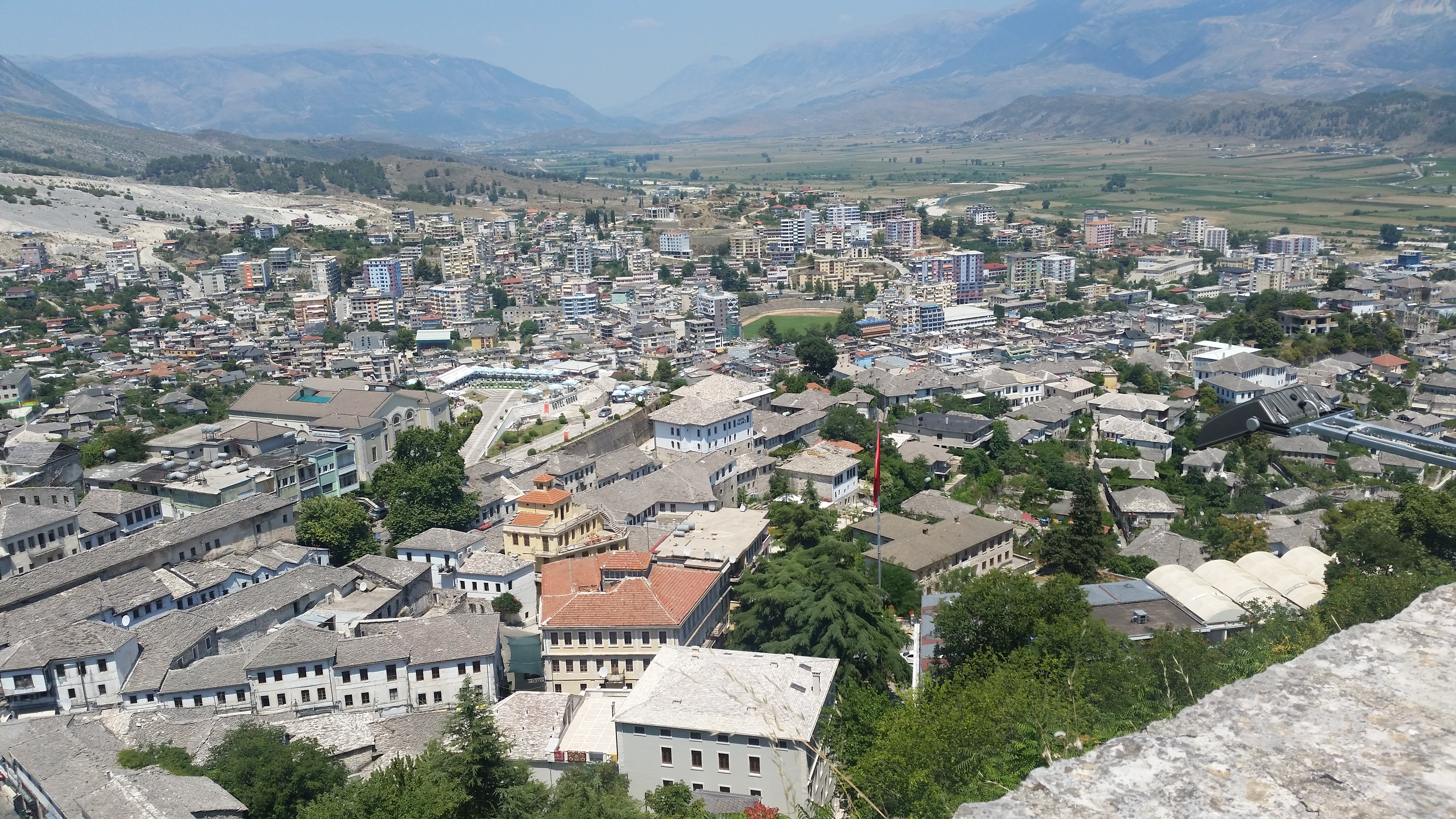 Gjirokastër, Albania, view from the castle